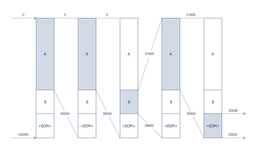 Graphical representation of an example of range encoding. The message being encoded here is "AABA ".